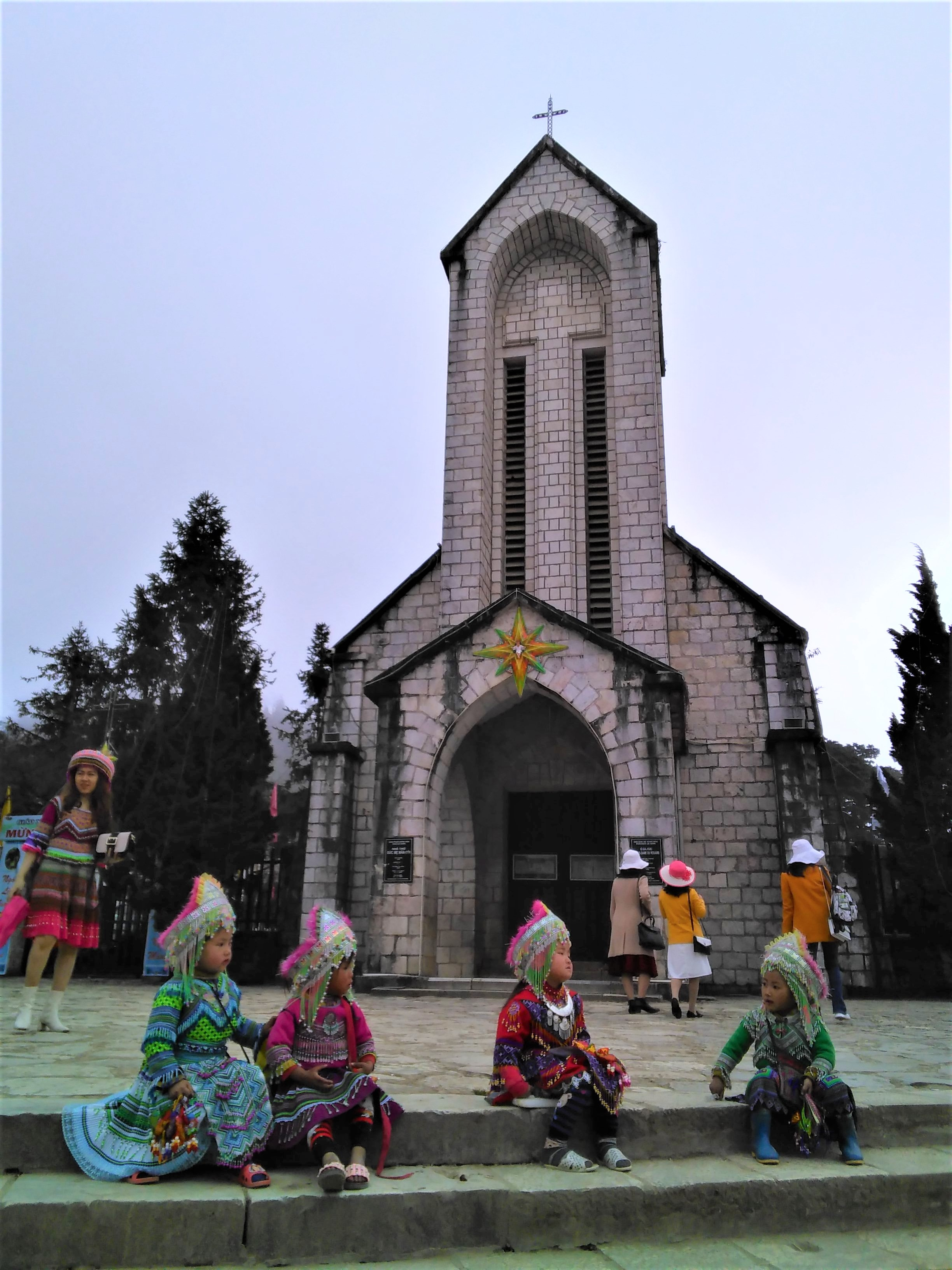 Stone church in Sapa